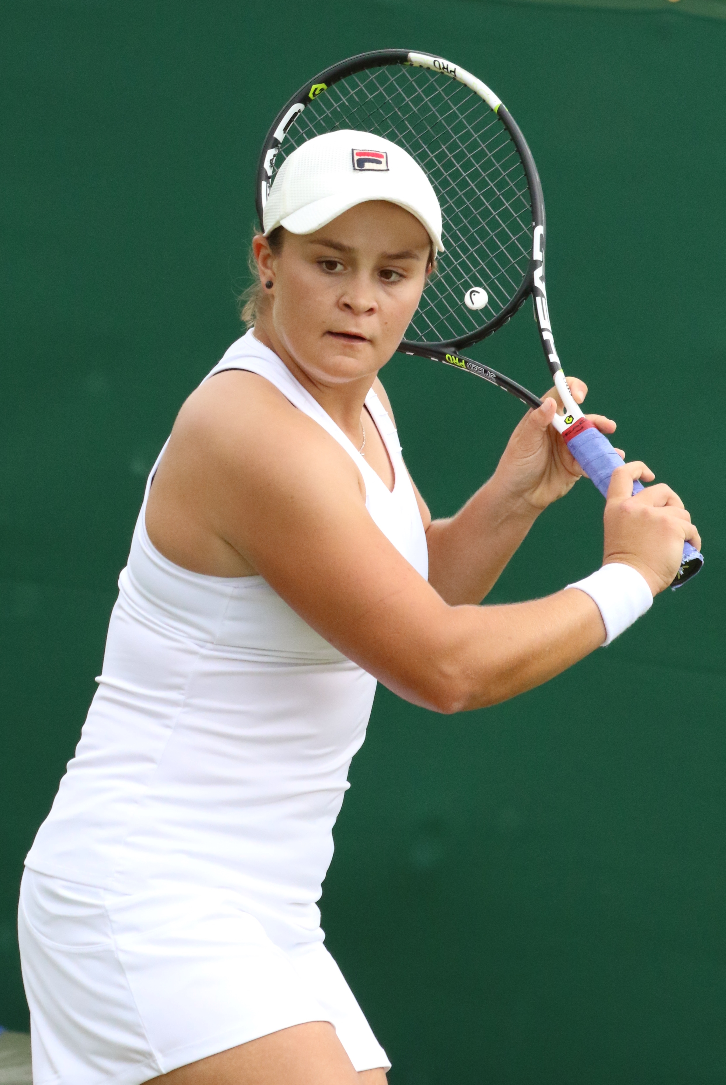 Barty WMQ16 (7)